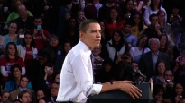 Barack Obama speech "Fighting for Health Insurance Reform" delivered 8 March 2010